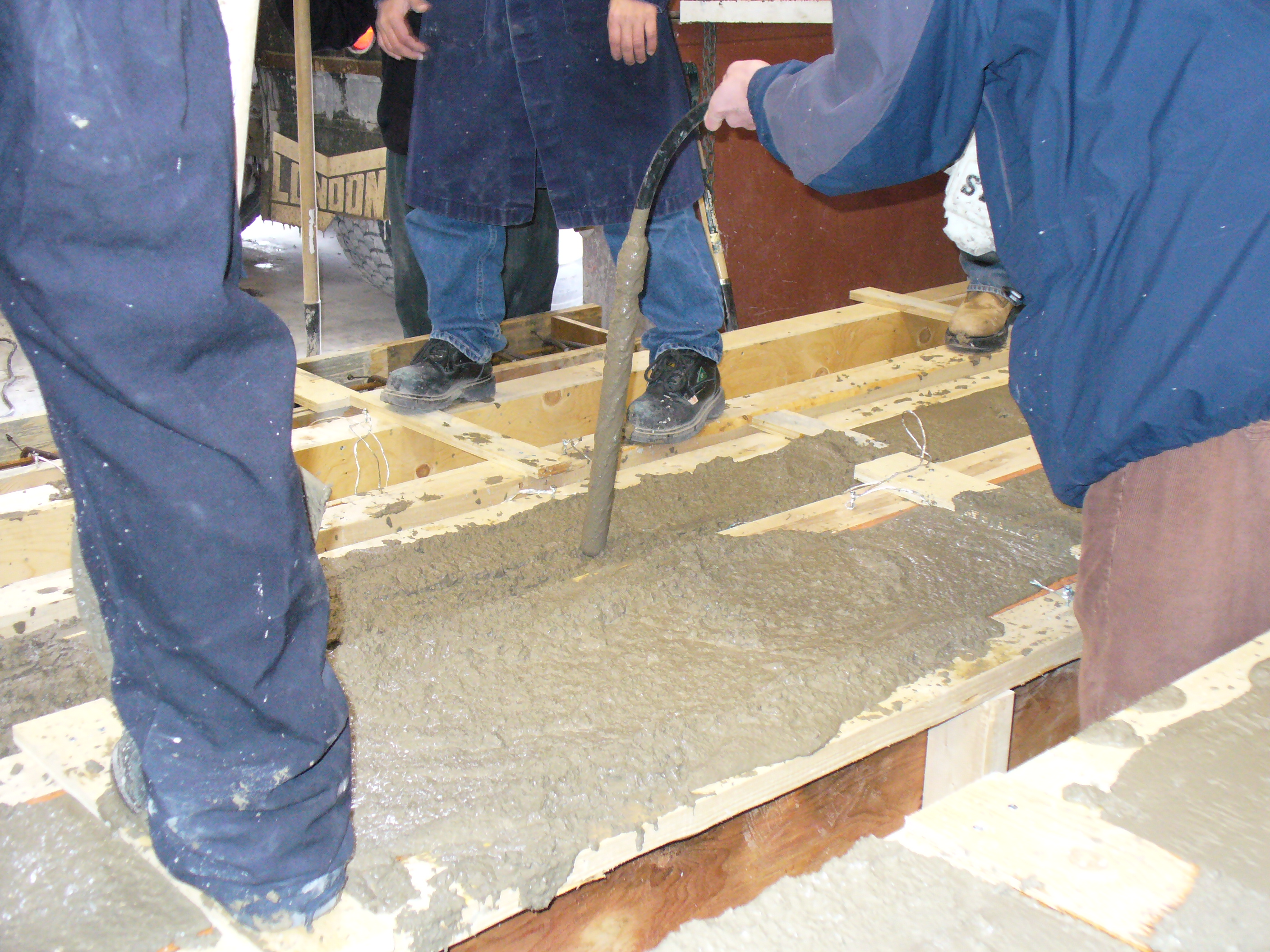 This photo depicts a handheld concrete vibrator being used to consolidate fresh concrete in a wooden formwork for a beam.